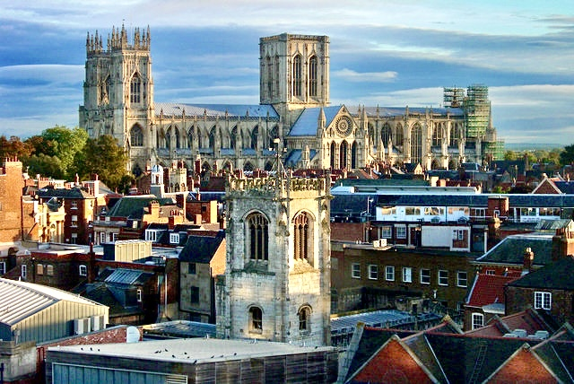 York Minster